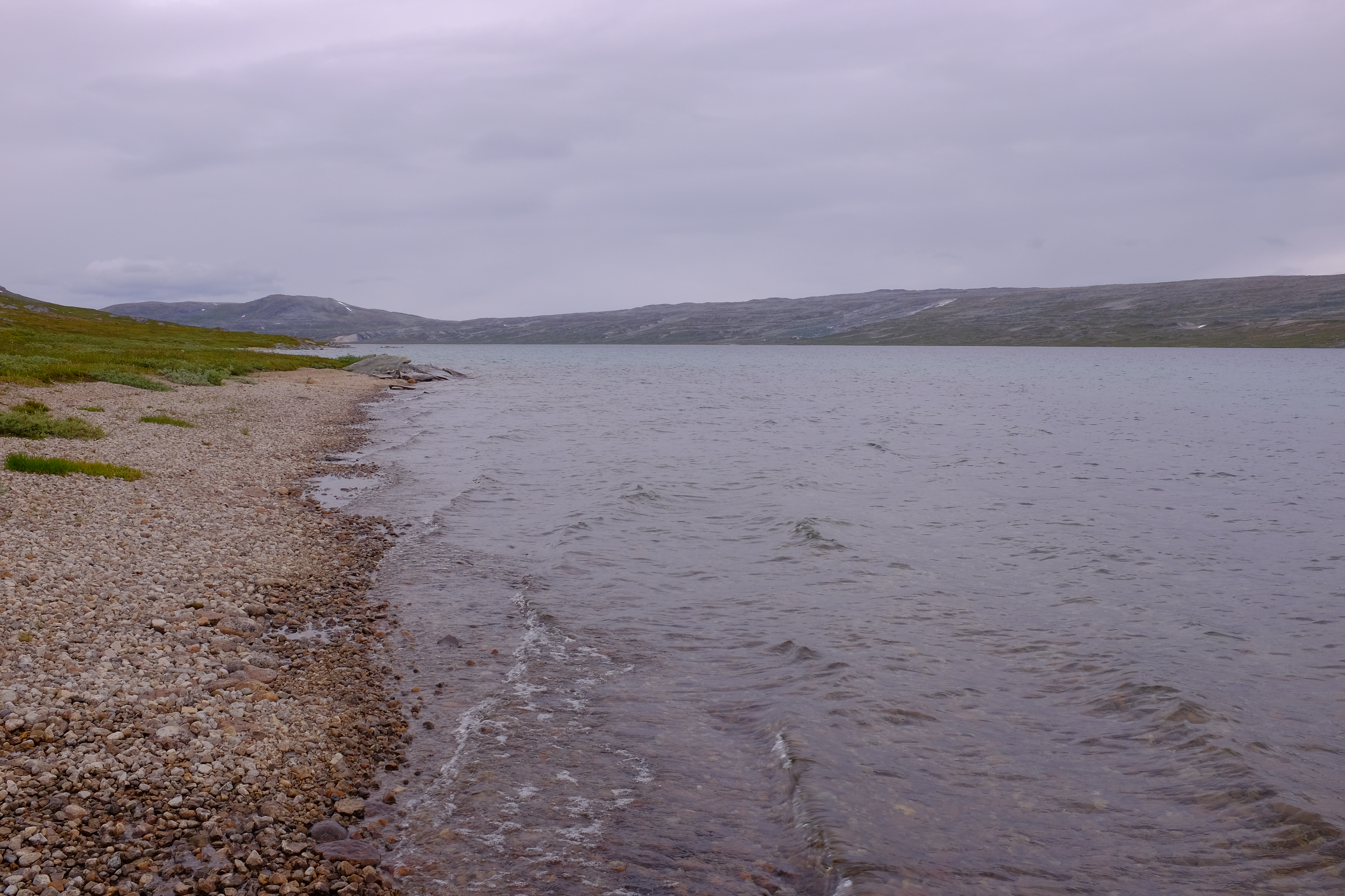 Nordre Bjøllåvatnet lake (sami: Bajep Ruovdajávrre) with a view to the north, Saltdal, Nordland, Norway.